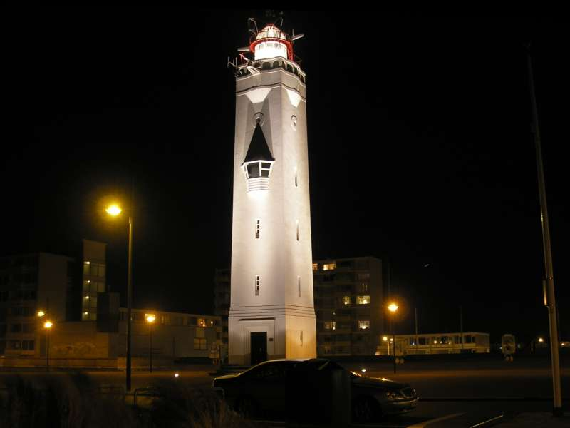 Nightshot of lighthouse in Noordwijk aan Zee, Netherlands